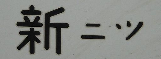 Symbol of JR East Niitsu Transport Depot, marked on its rolling stock